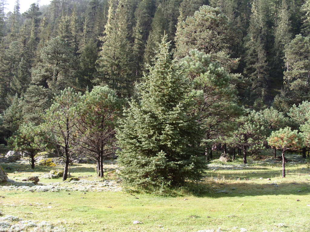 Picea chihuahuana and Pinus cooperi, in Guanaceví, state of Durango, Mexico.